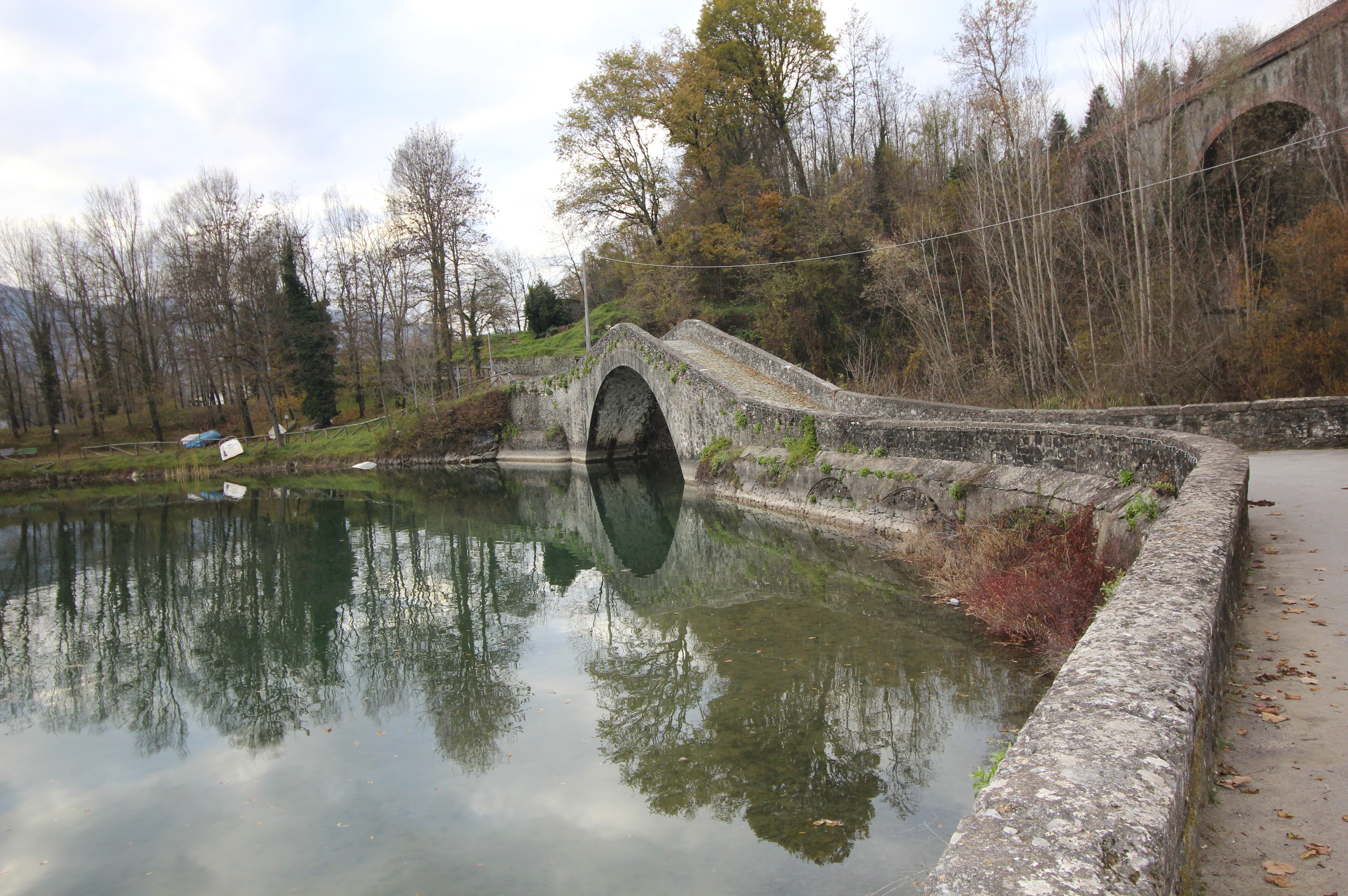 Bridge Ponte della Madonna, on the Corfino River and the Lake Lago di Pontecosi, in Pontecosi (hamlet of Pieve Fosciana), Province of Lucca, Tuscany, Italy